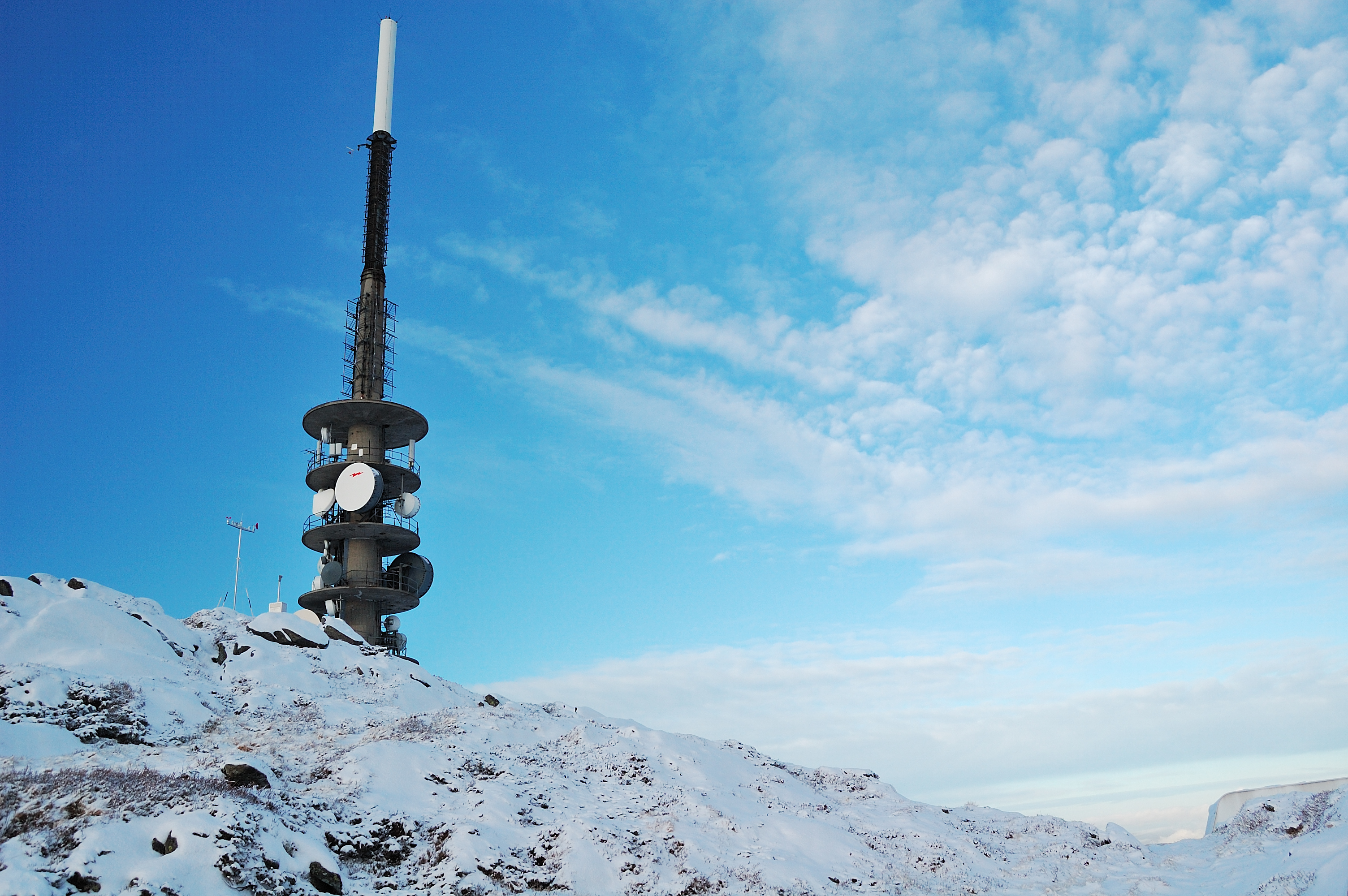 The TV Tower atop the Ulriken mountain in Bergen, Norway.